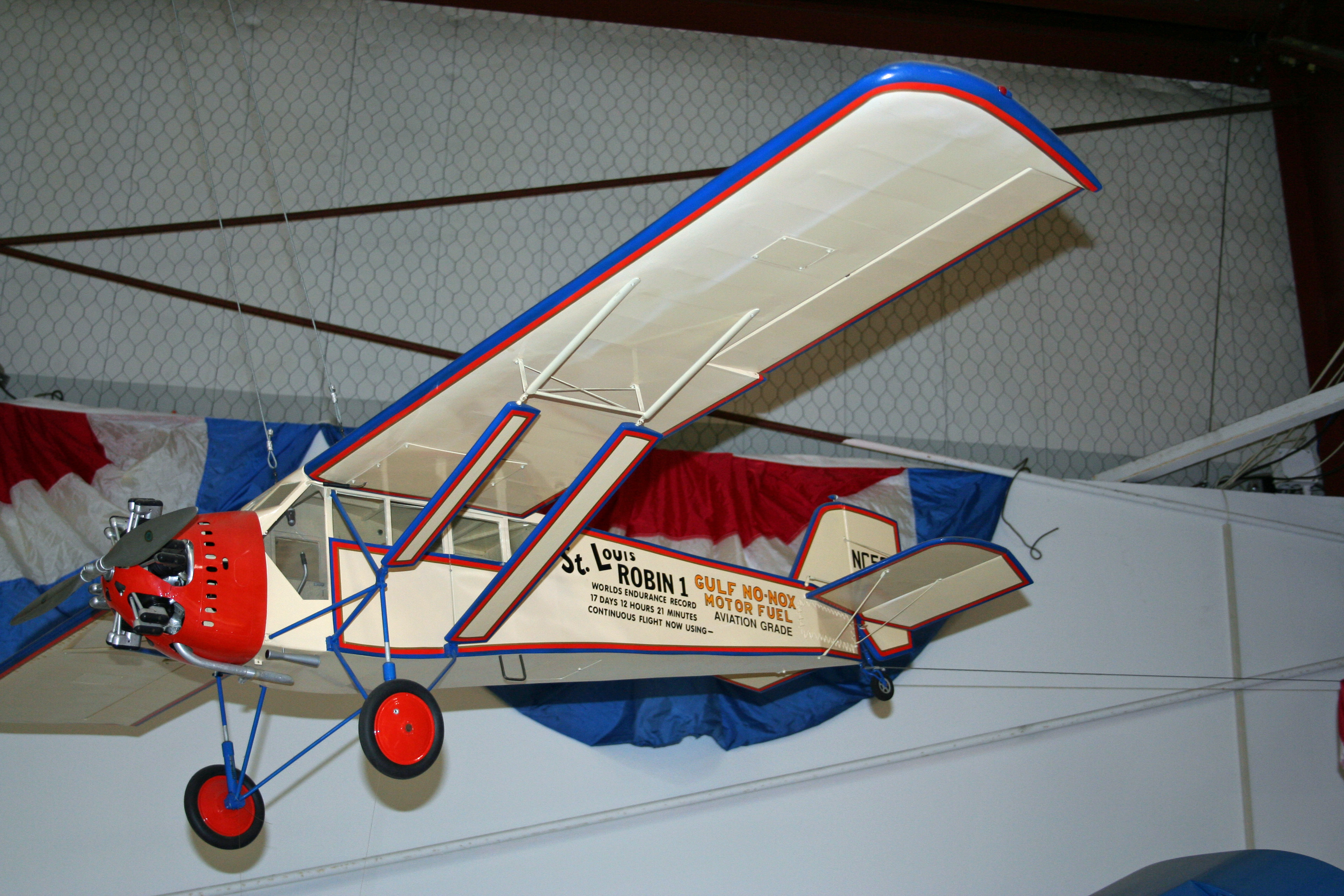 Curtiss Robin